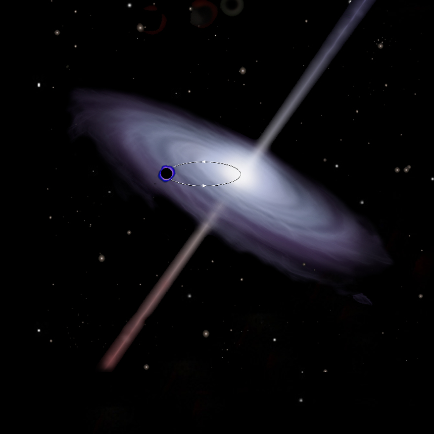 LISA will observe gravitational waves from several sources. One is stellar-mass black holes inspiiraling to massive black holes. LISA will be probing conditions in galatic cusps, and providing precision, high-field tests of gravitational theory.